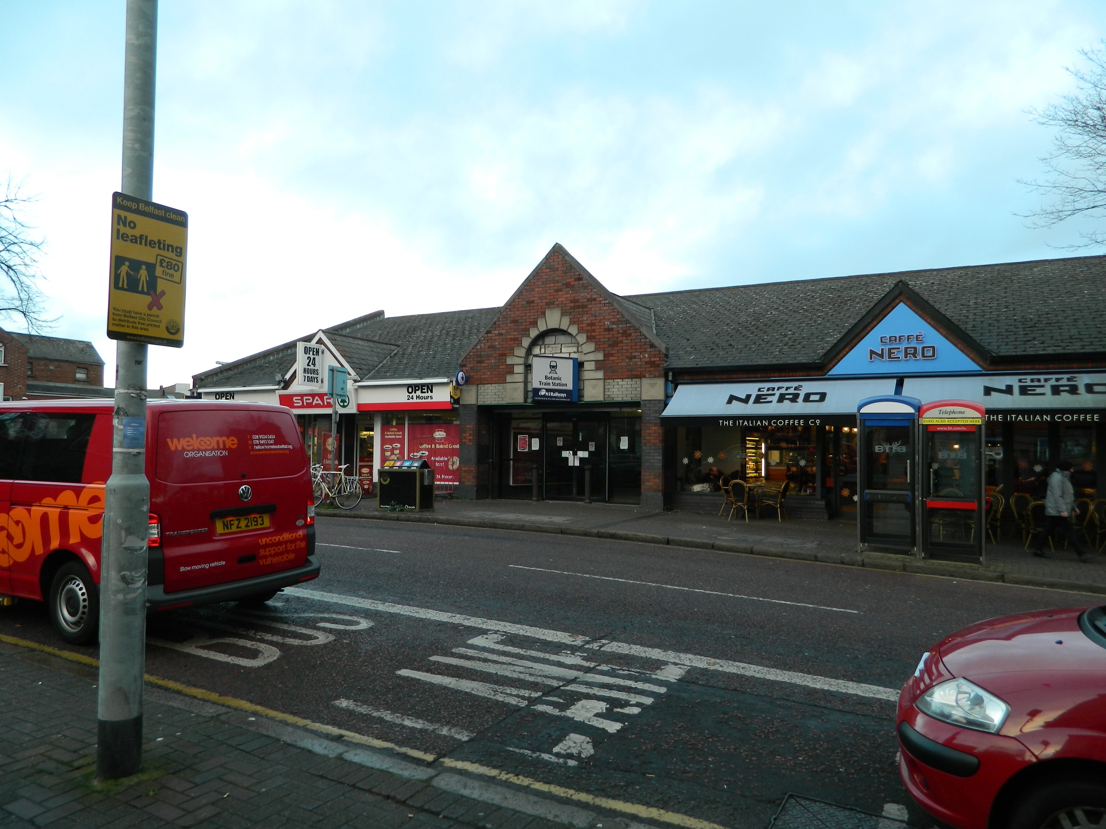 Botanic railway station, Belfast